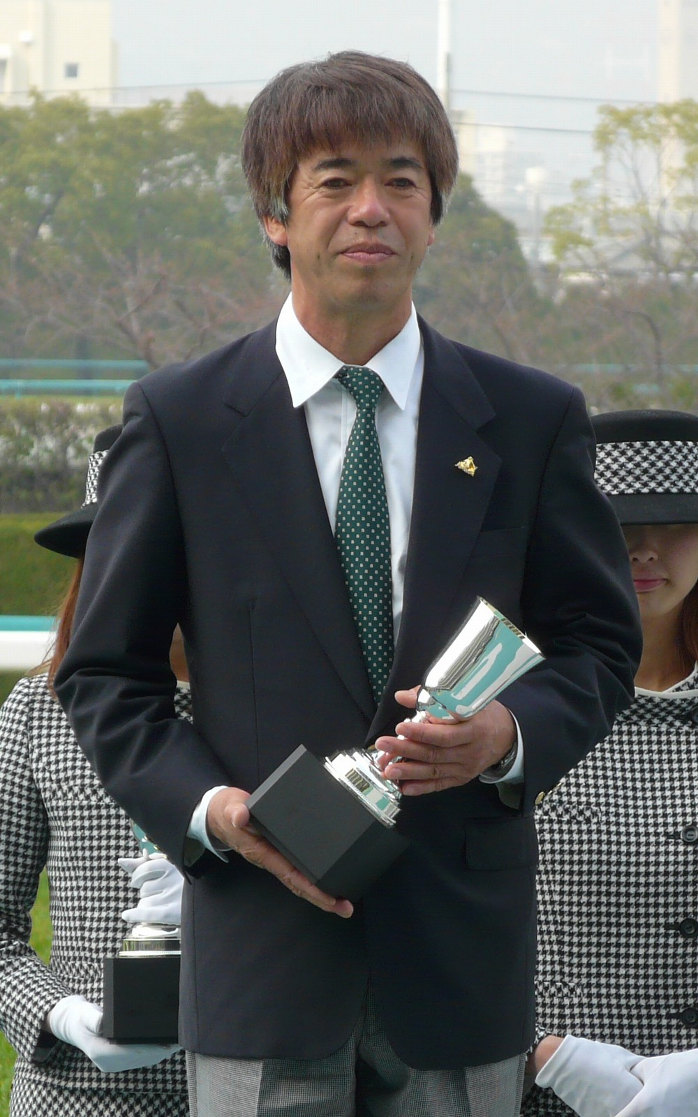 Kazuo-Fujisawa20100320